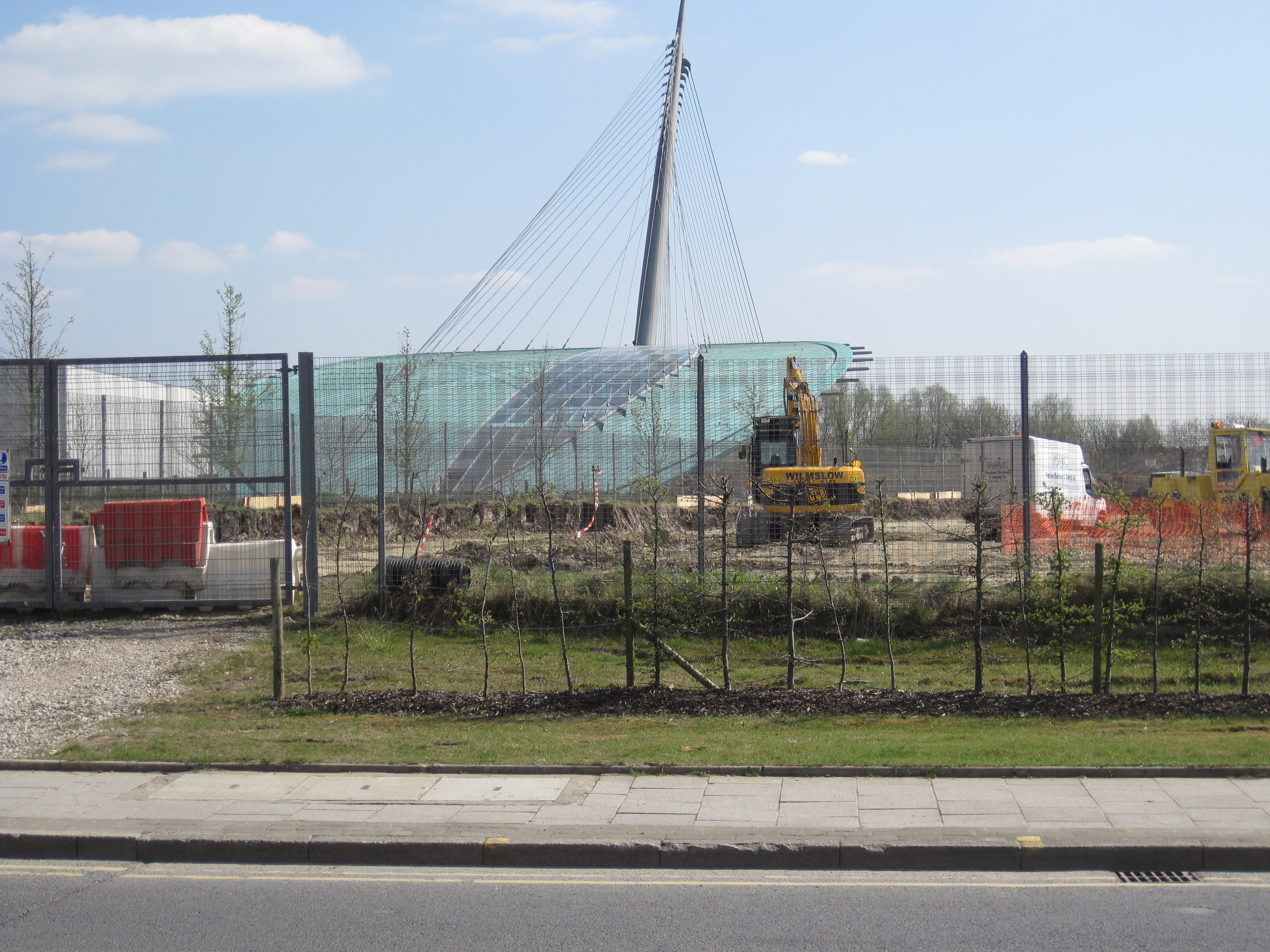 Central Park, east Manchester; a new metrolink tram stop has been created at the site.